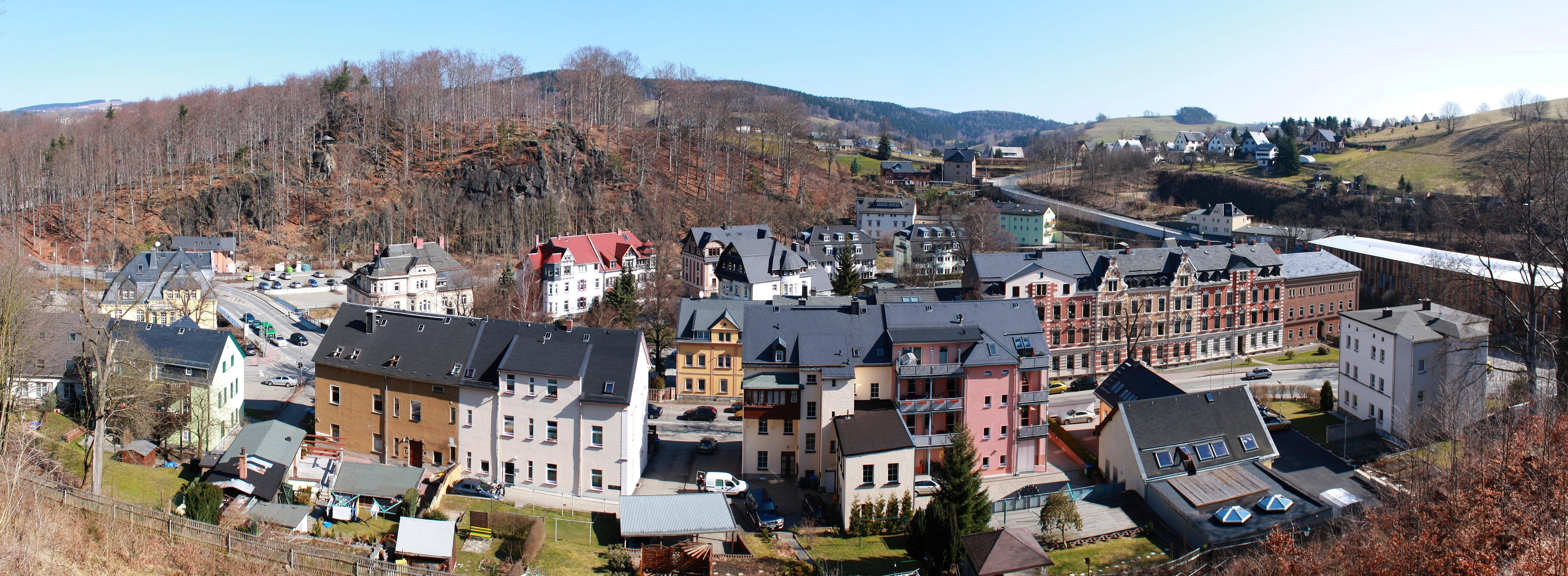 View from Schloss Schwarzenberg towards Ottenstein